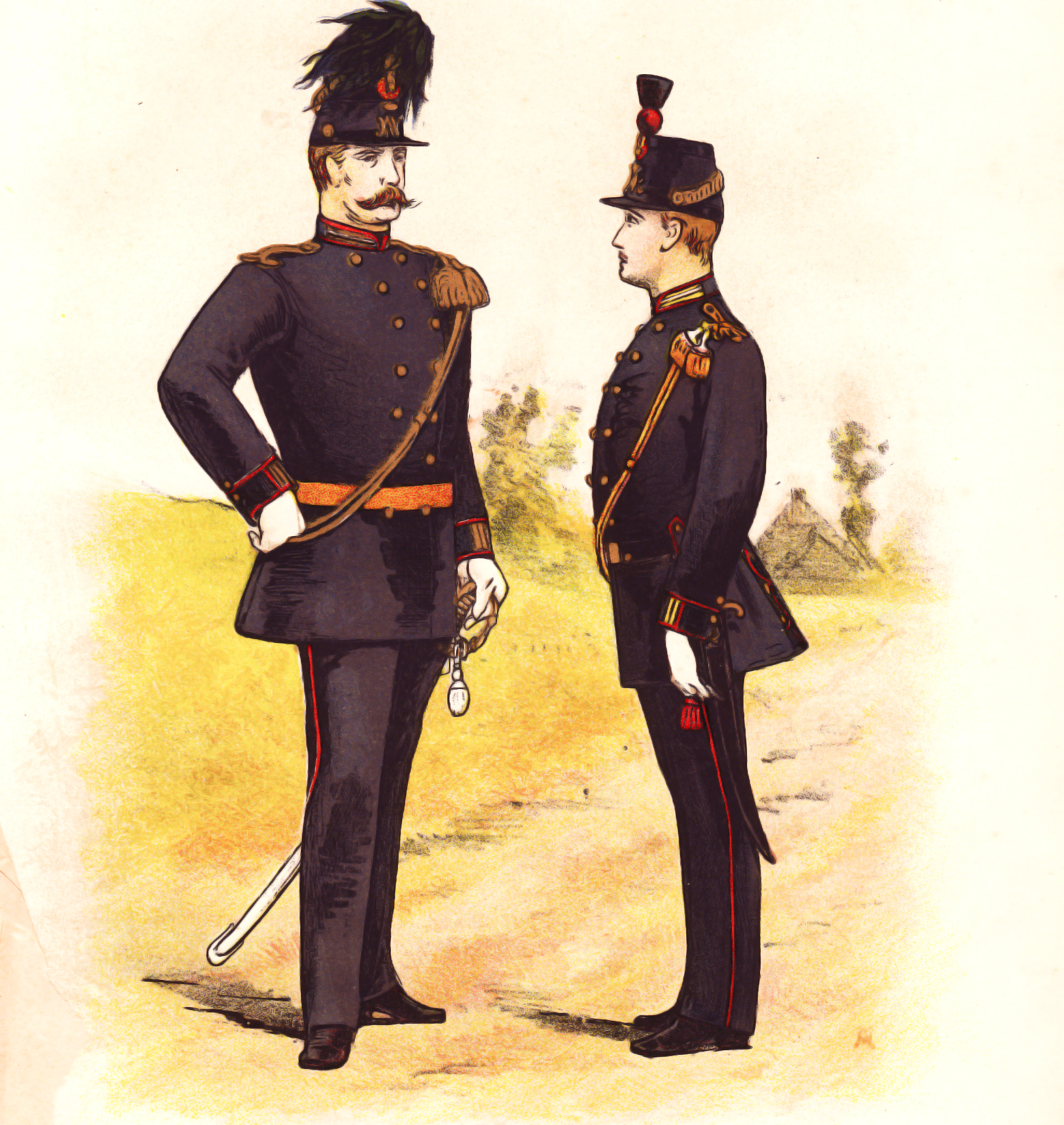 Koninklijke Militaire Academie